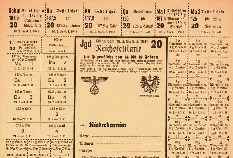 Food rationing in fascist Germany. A food ration coupon for the Brandenburg district from 1941.